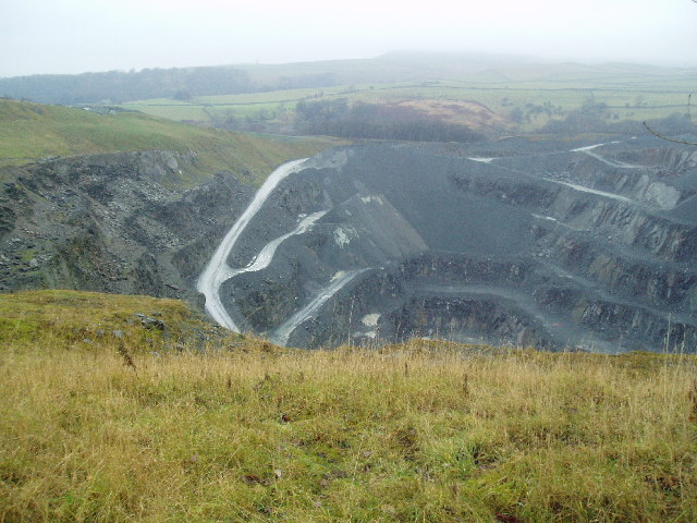 Quarry near Skirwith, Ingleton. There are many disused quarries in the immediate vicinity, but this impressive hole is still being excavated. Hidden in the valley behind the quarry is Snow Falls, part of the eastern section of the beautiful Ingleton waterfalls walk. Picture taken from SD 70714 73862 (from BEHIND the fence guarding the quarry edge !)